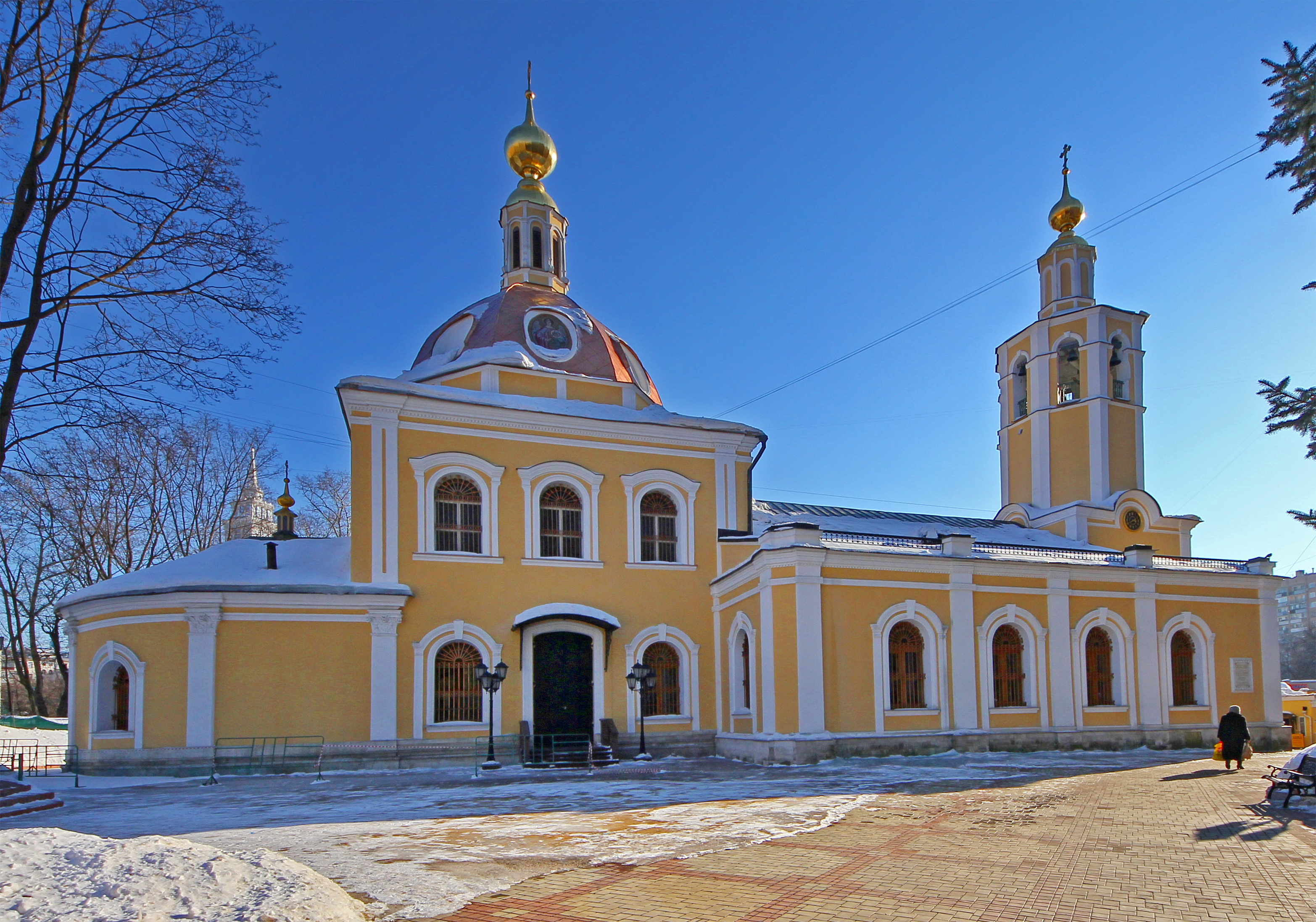 All Saints Church in Vsekhsvyatskoe (Sokol), Moscow.